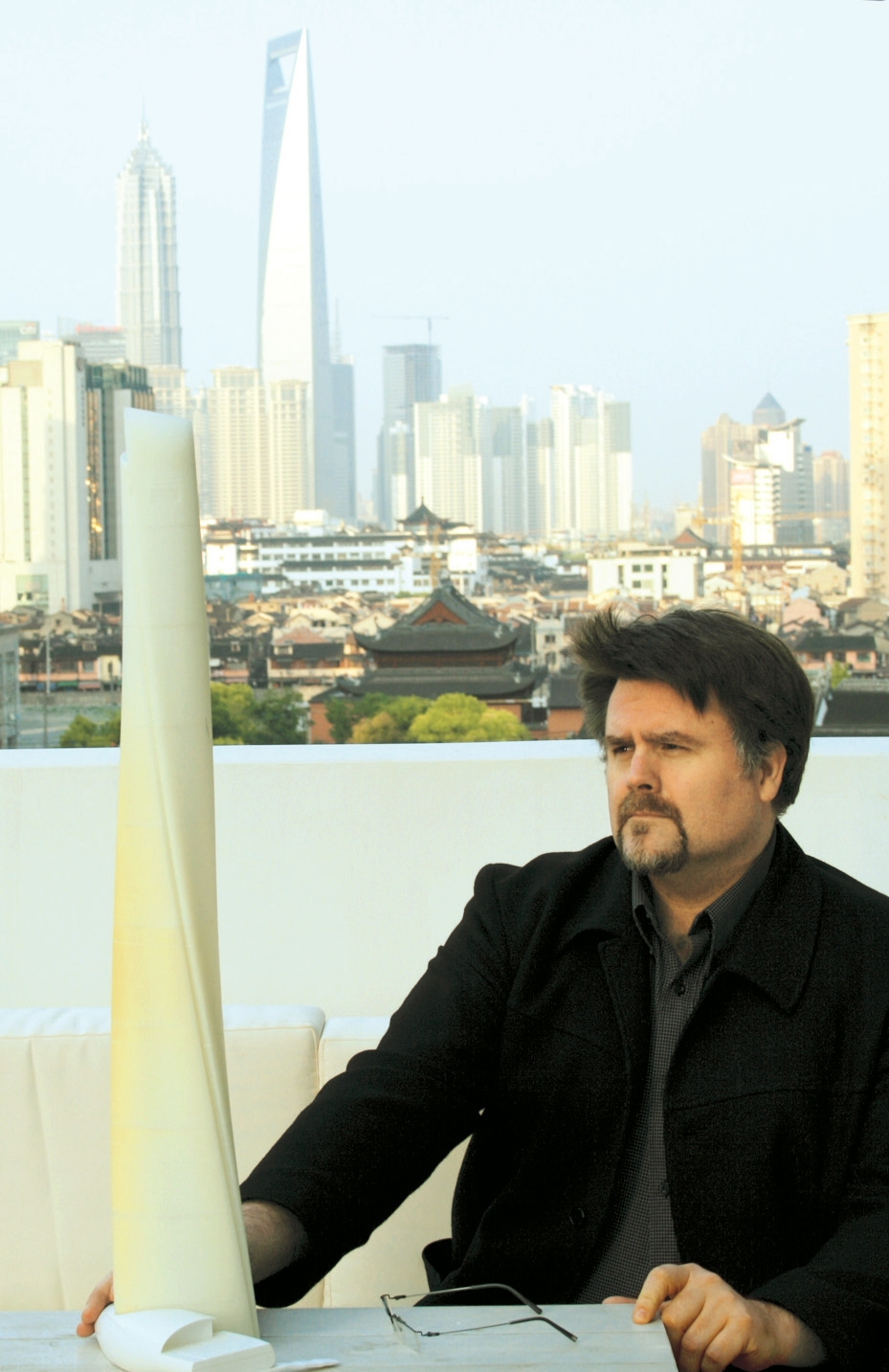 Marshall Strabala and a model of the Shanghai Tower in Shanghai, China.